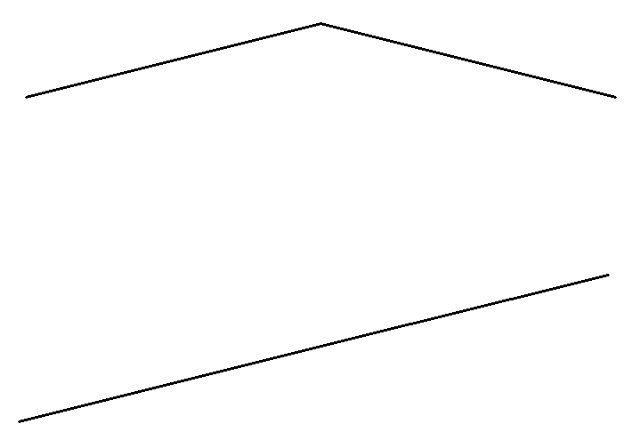 Slope of the surface of a motorway; when the road is straight (top) and in a curve to the left (bottom).